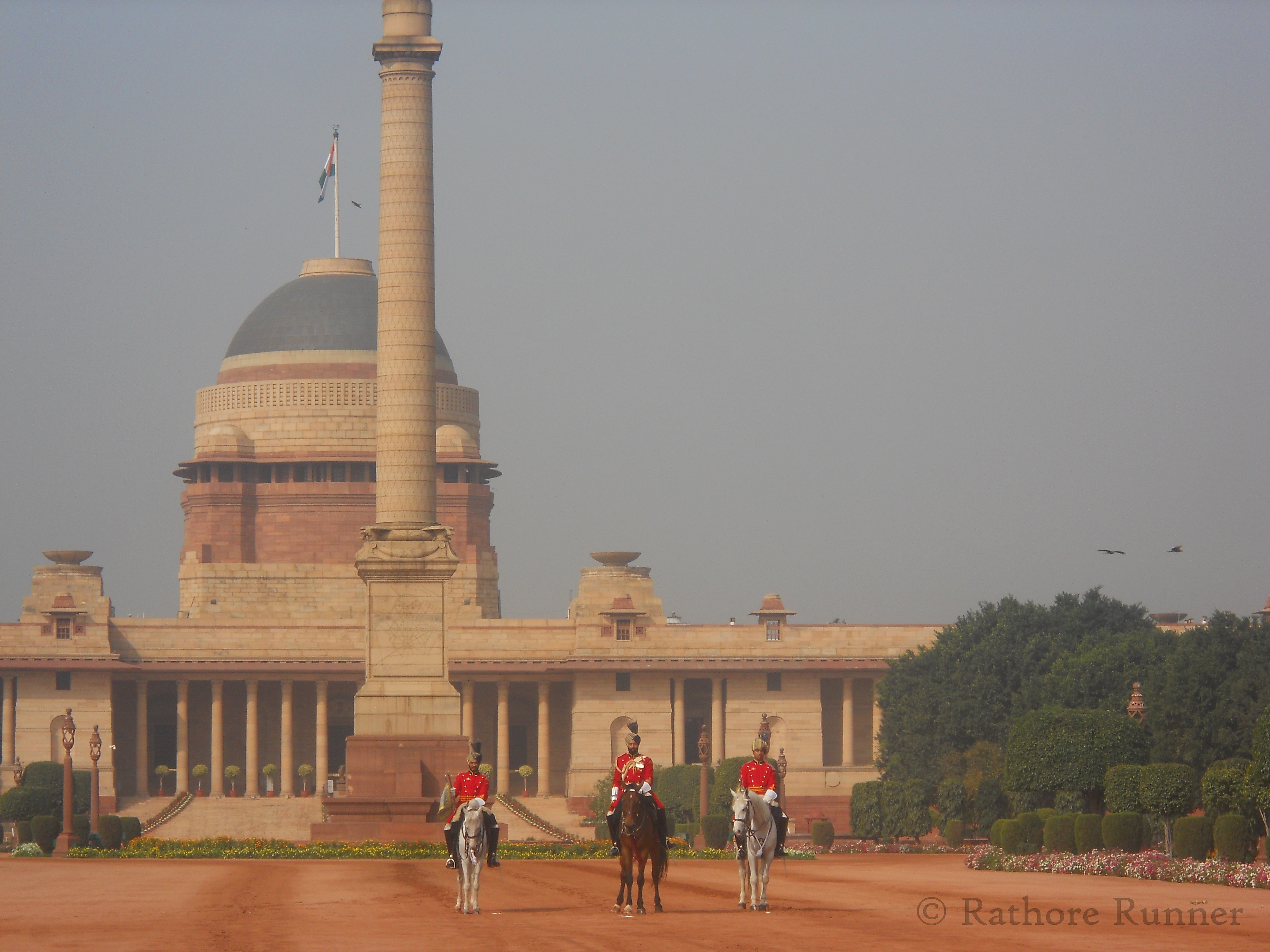 This is a view of Guard Changing Ceremony held at Rashtrapati Bhavan